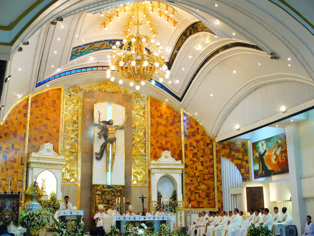 Retablo of Our Lady of Mount Carmel Parish, Pulong Buhangin, Santa Maria, Bulacan